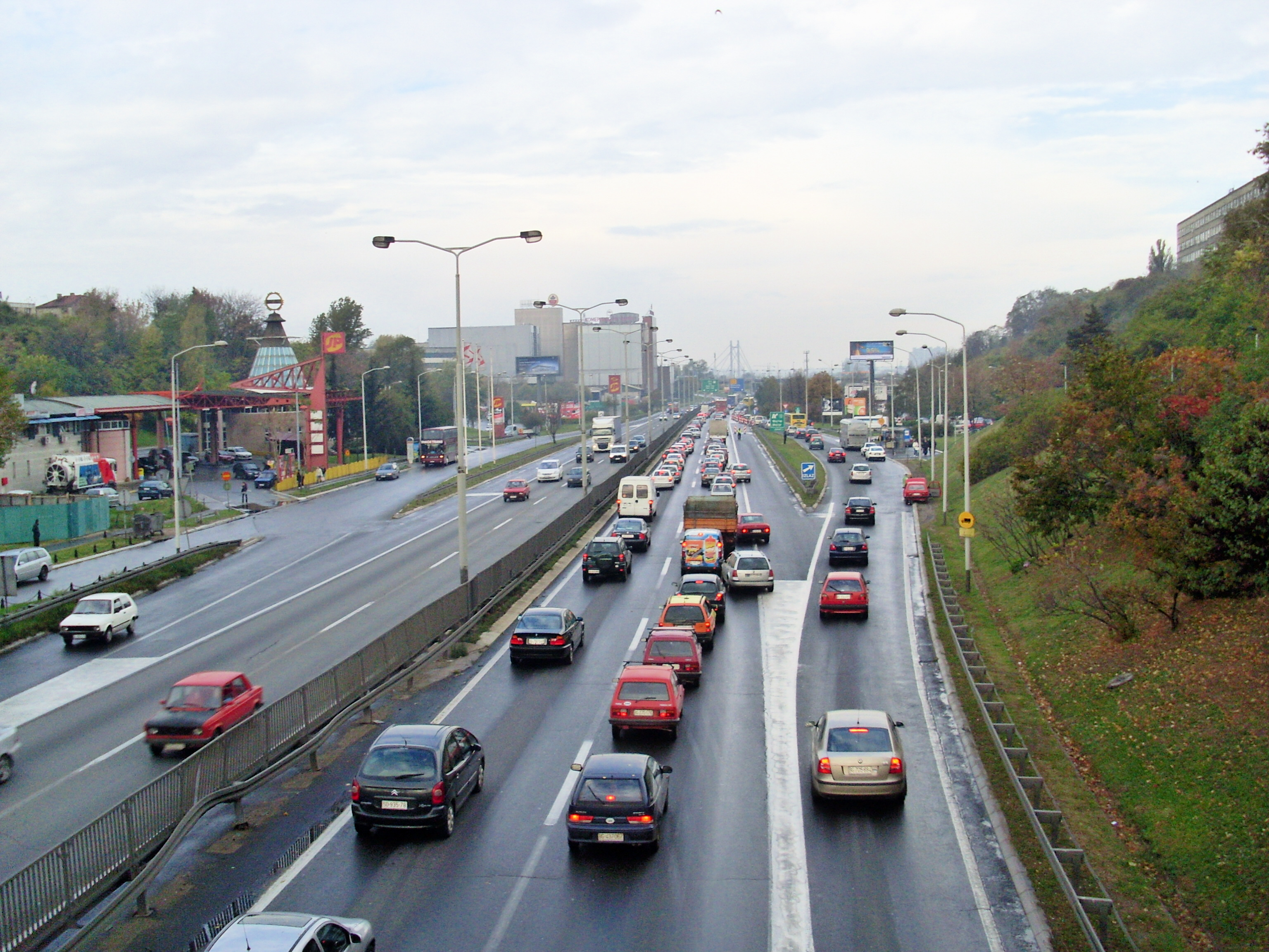 A1 Freeway in downtown Belgrade in the Zagreb direction